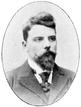 Image scanned from the book "Svenskt Porträttgalleri XX - Arkitekter, Bildhuggare, Målare m.fl. " ("Swedish Portrait Gallery XX - Architects, Sculptors, Painters, ") published 1901